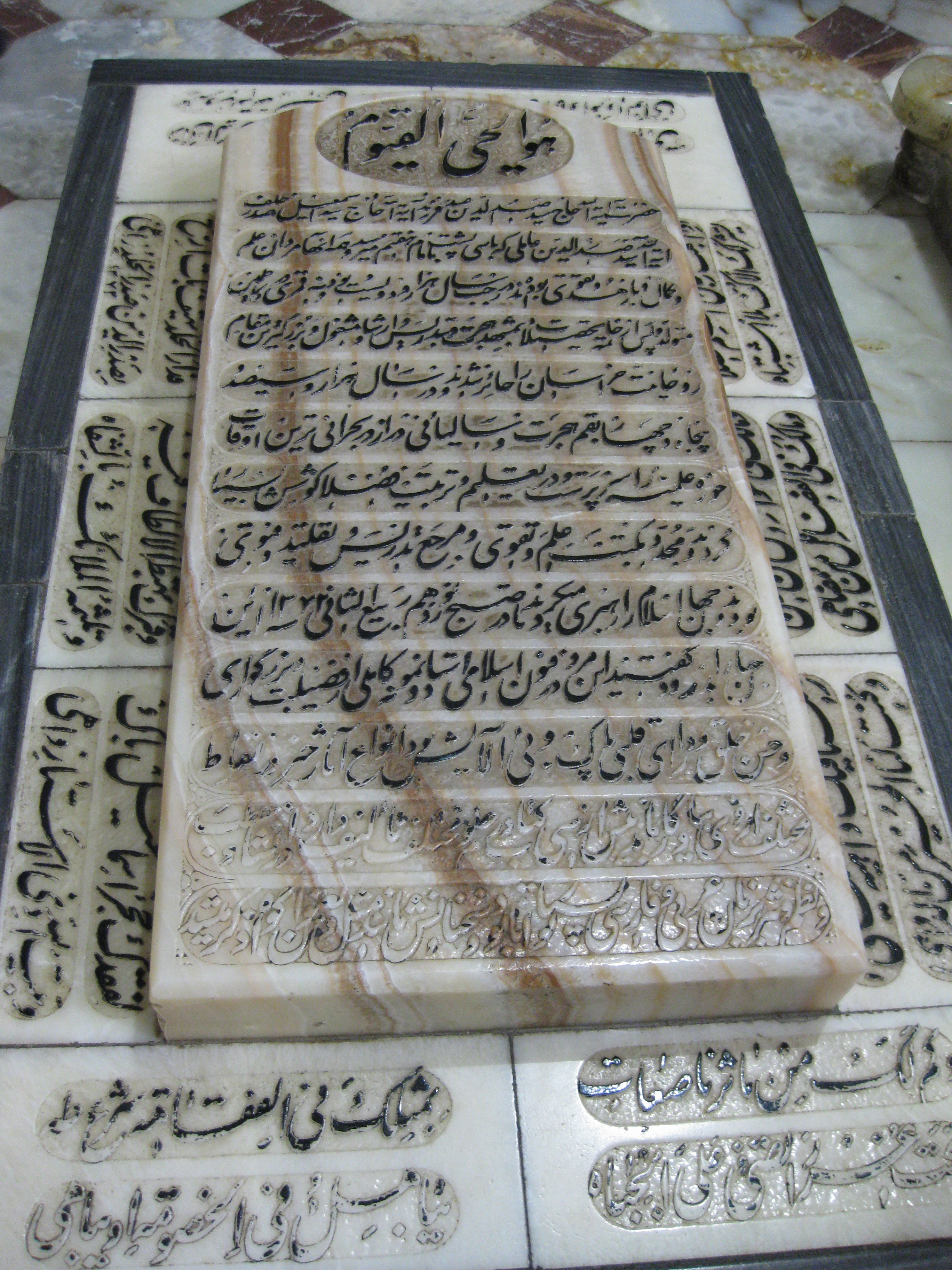 Tomb of Seyed Sadr Al-din Sadr; In Shrine of Fatimah Ma'sūmah, Qom, Iran.